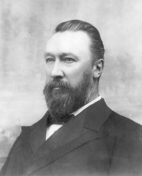 Photograph of William Lyne (1844 - 1913), former Premier of New South Wales, Australia.